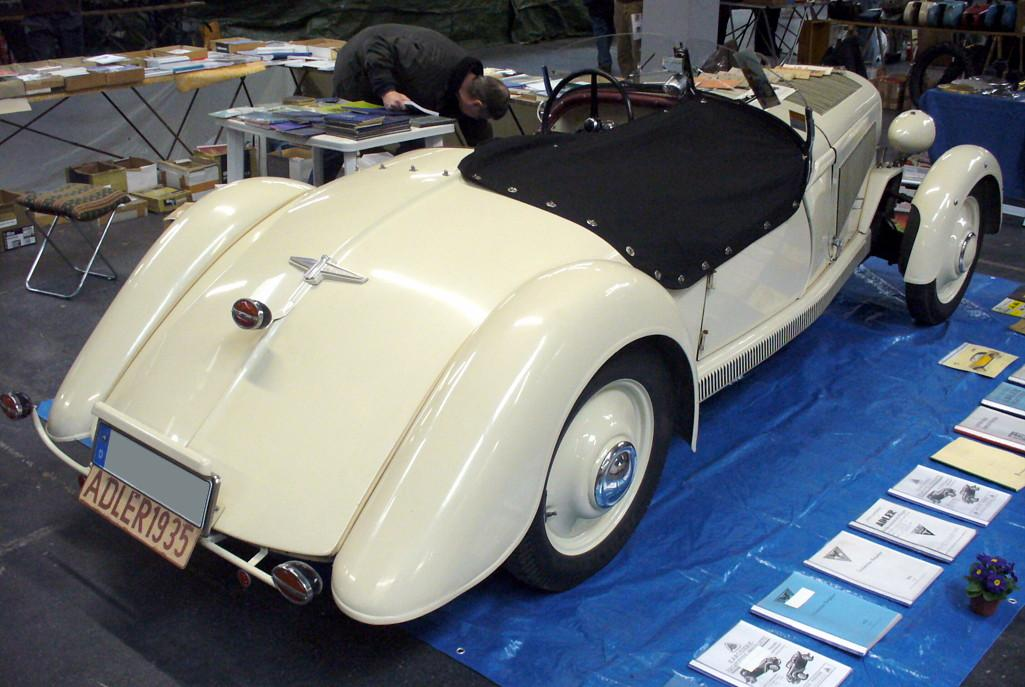 Adler Junior Sport Roadster